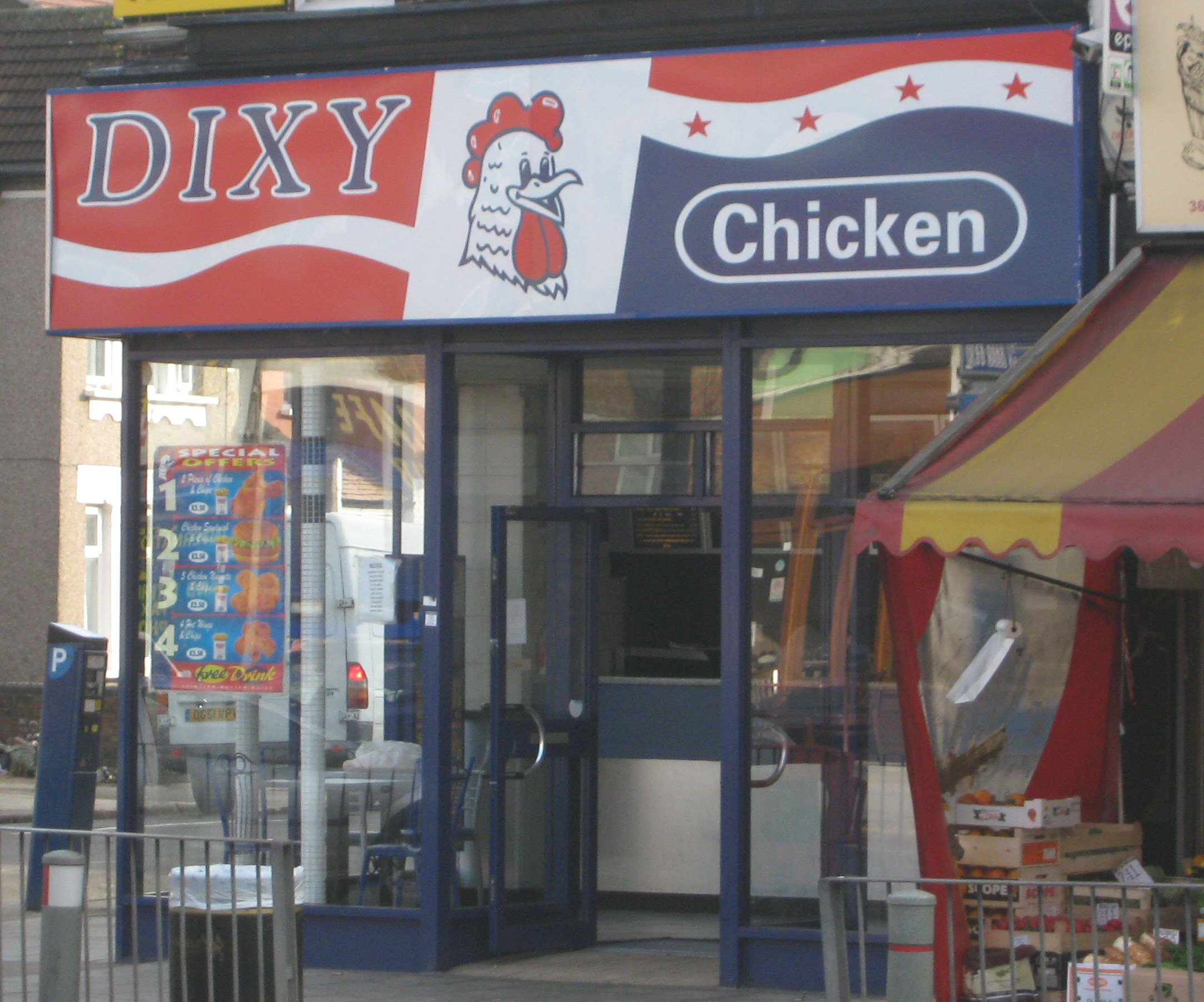 Dixy Chicken shop in Palmers Green, London Address:40 Green Lanes, Palmers Green, London N13 6HT